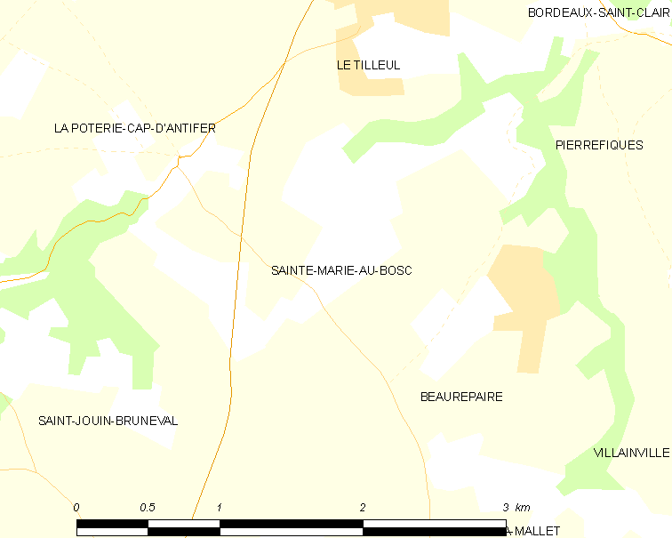 Map of French municipality Sainte-Marie-au-Bosc